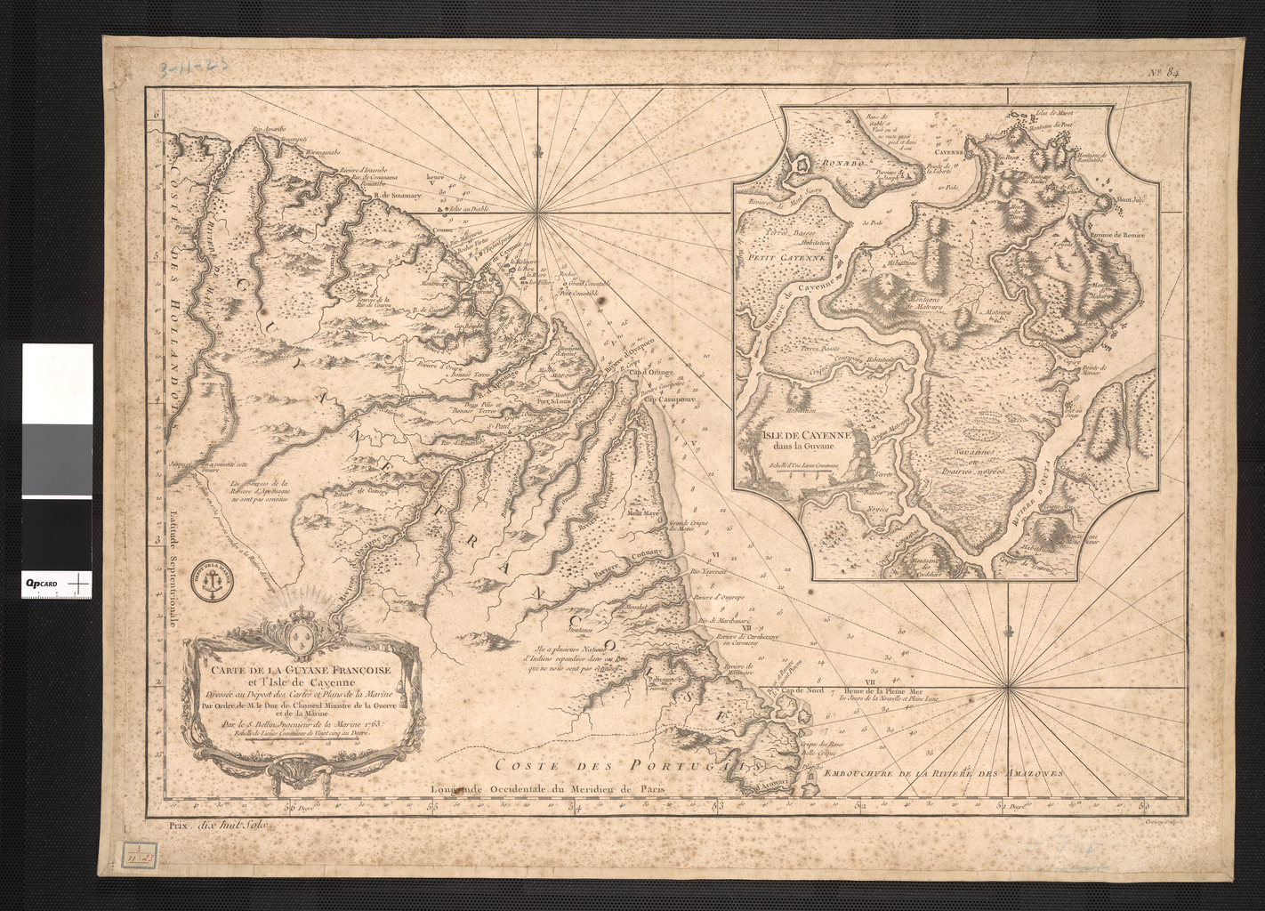 This map of French Guyana and the island of Cayenne is by Jacques Bellin (1703-72), a prolific cartographer attached to the French Marine Office. It reflects the careful mapping of bays, seas, and harbors that characterized 18th-century French naval cartography. In addition to the detailed information about the coast, Bellin’s map includes notes about the interior of this part of South America, much of which was still largely uncharted by the Europeans.